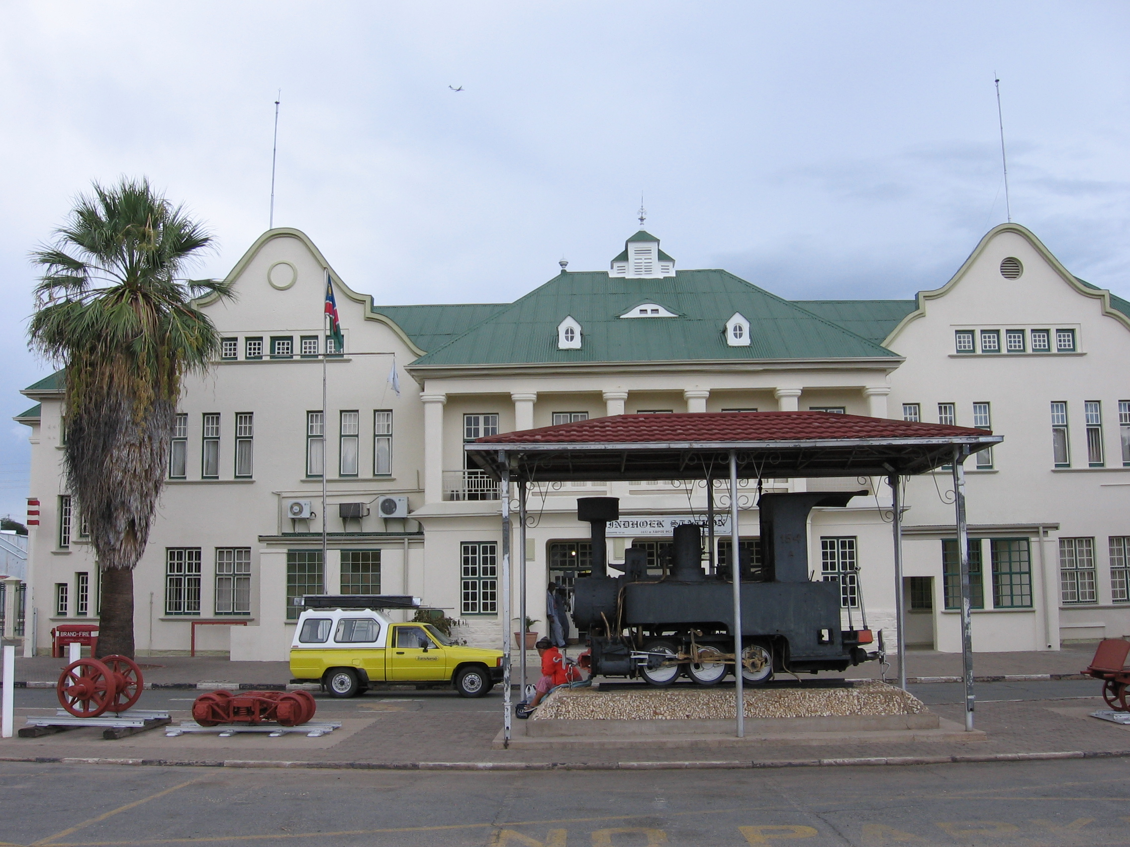 Railway station in Windhoek. The plinthed locomotive is a Zwillinge, number 154A.